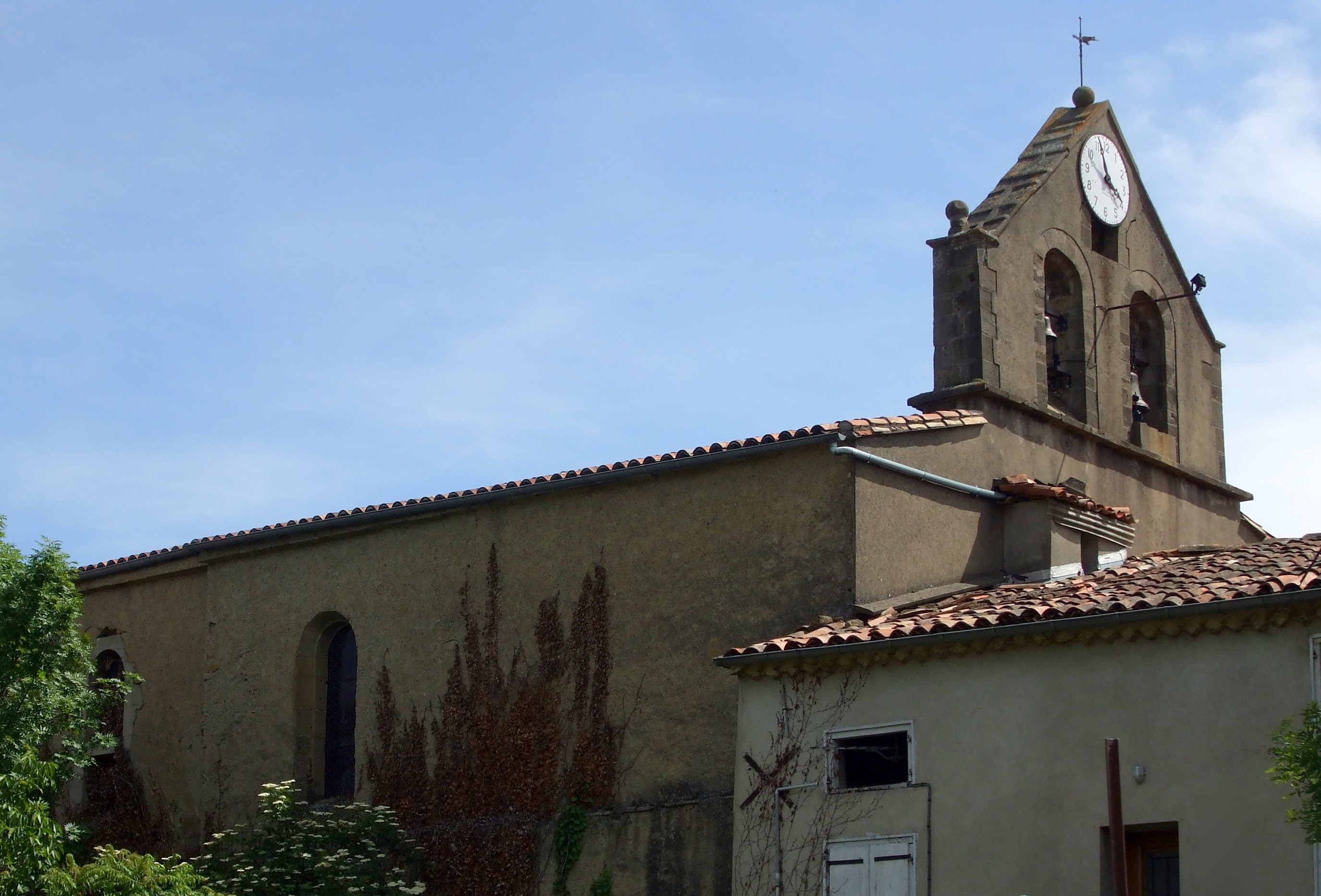 Church of Aigues-Vives, Ariège